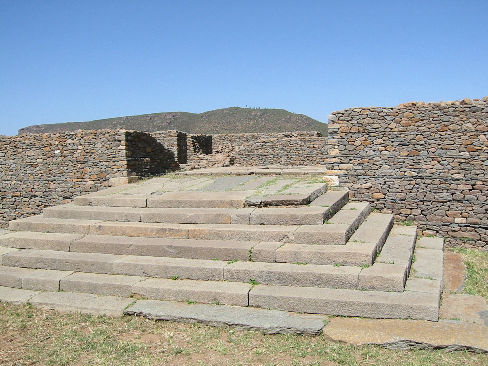 Aksum (Ethiopia)